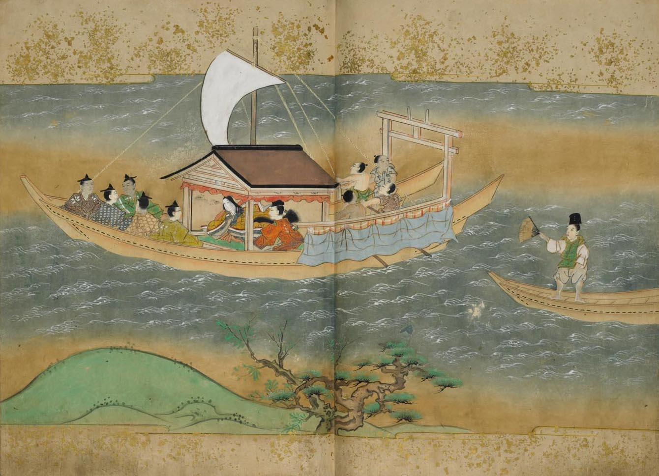 The Adventure of Princess Mikushige-dono. From Ehon Shinkyoku. Owned by Meisei University.